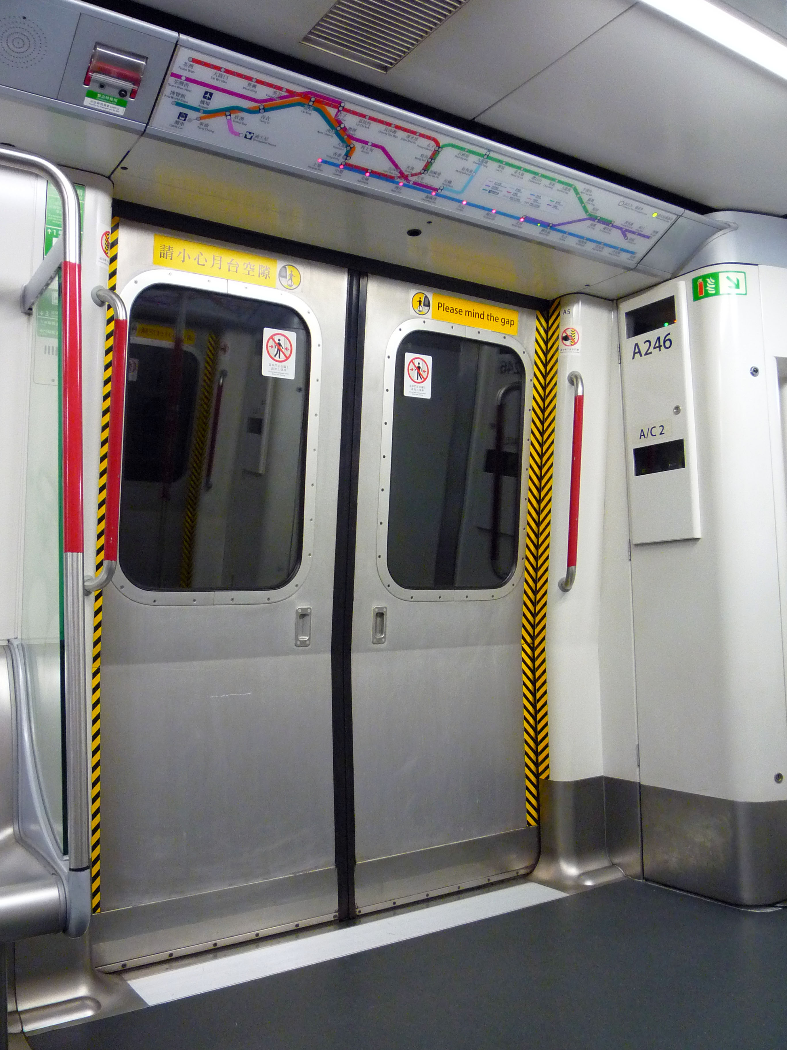 MTR M-Train train doors